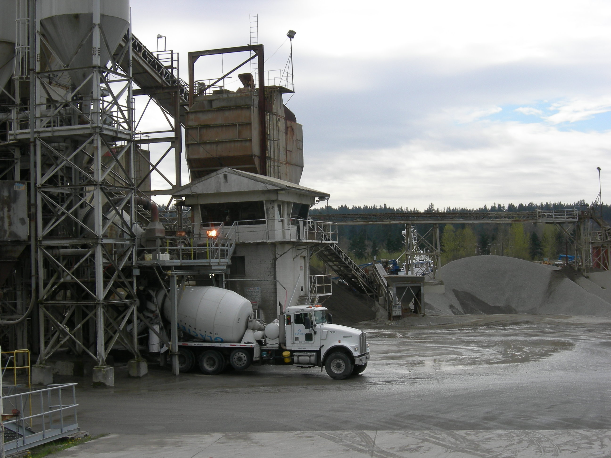 The Glacier Northwest cement works, Kenmore, Washington, seen from the Burke-Gilman Trail.